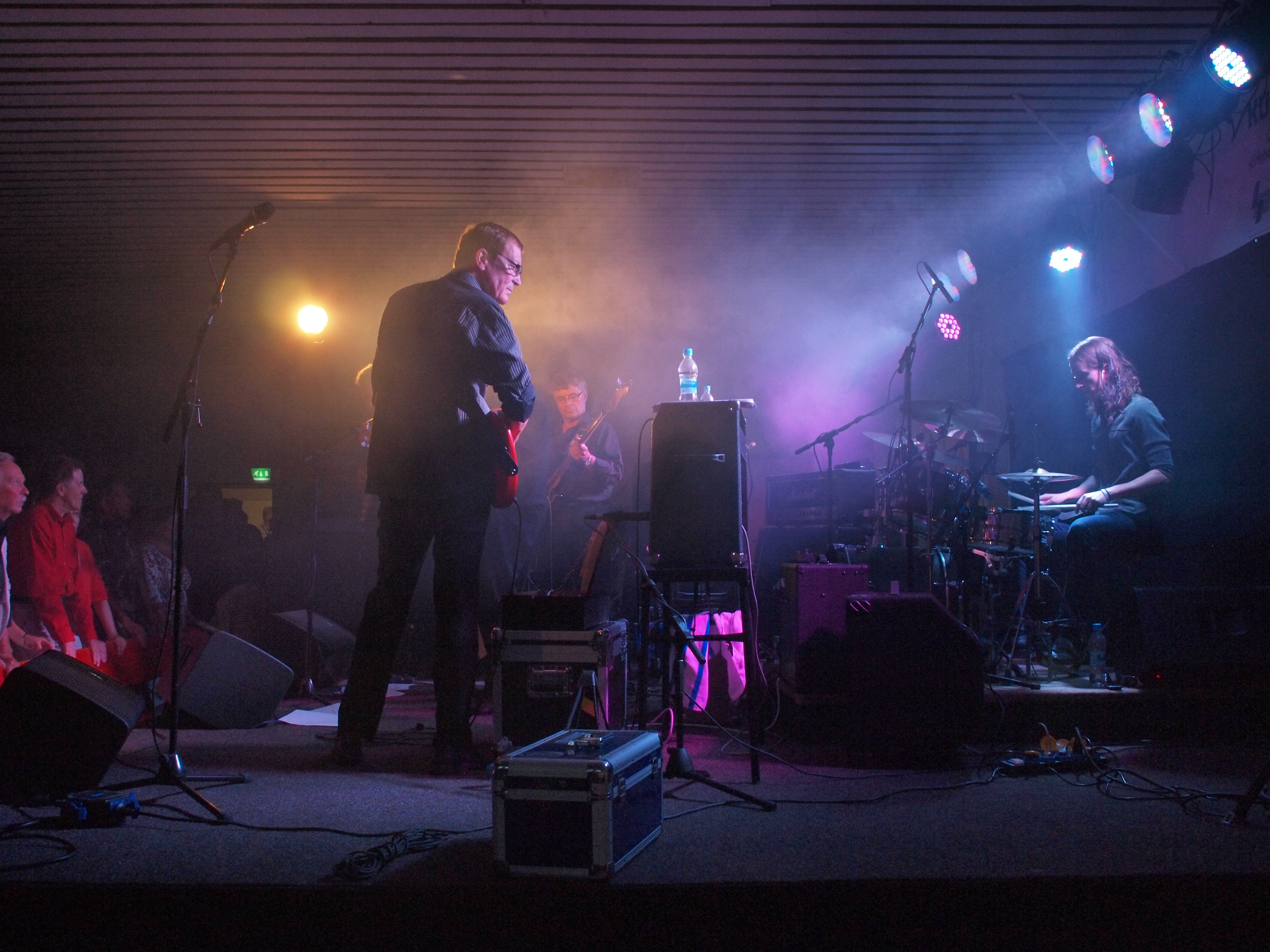 The Sounds performing at Kisapirtti in Parikkala, Finland July 13th 2013.